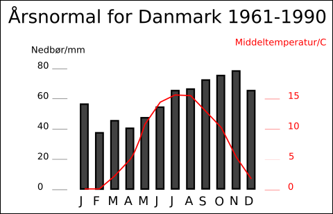 Climate diagram based on DMIs year normal for Denmark in the period 1961 to 1990. Originally format SVG (Scalable Vector Graphics) is available by contacting the uploader